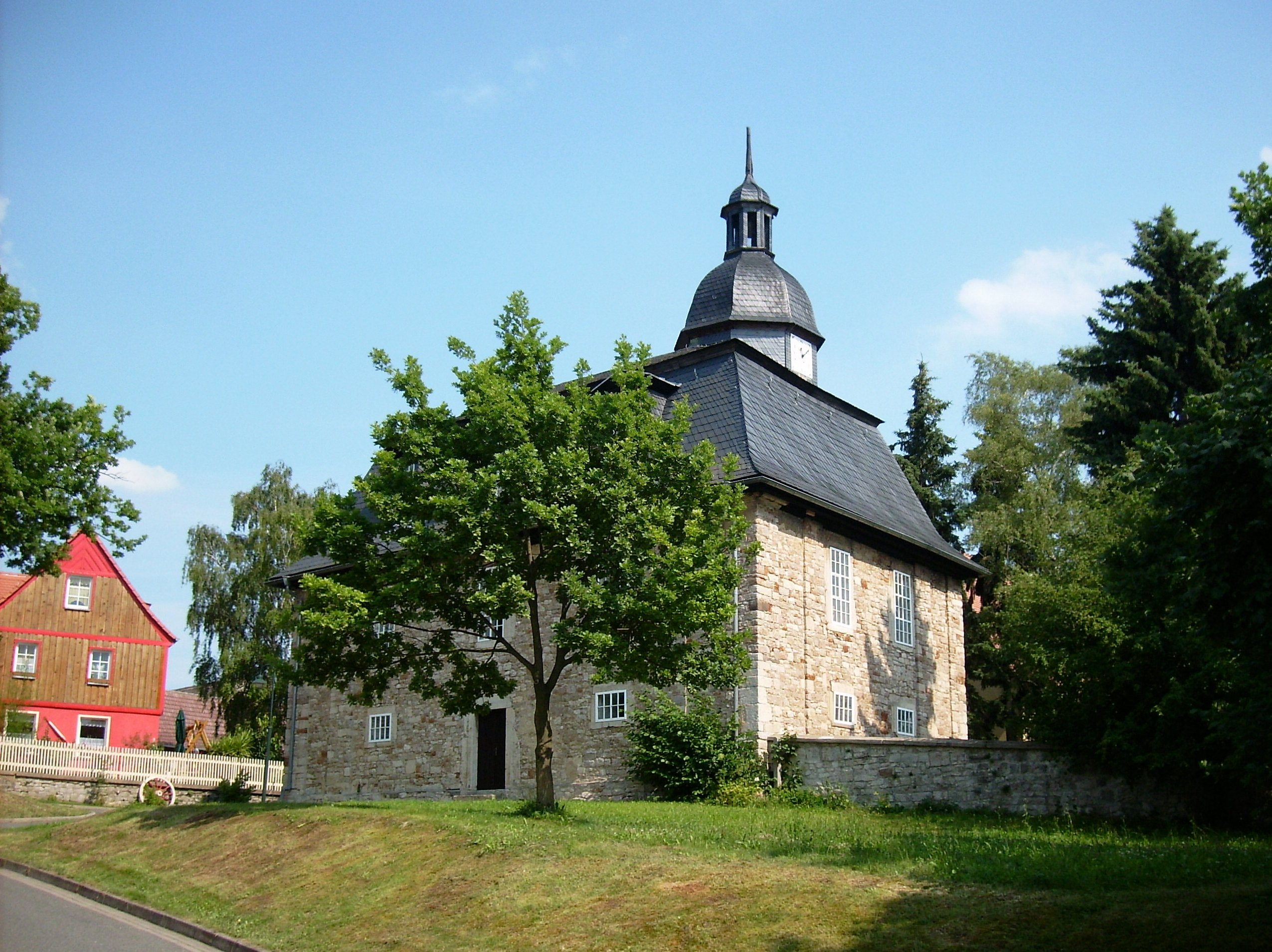 Parish church St. Wigbert in Bergsulza (Bad Sulza, district of Weimarer Land, Thuringia)